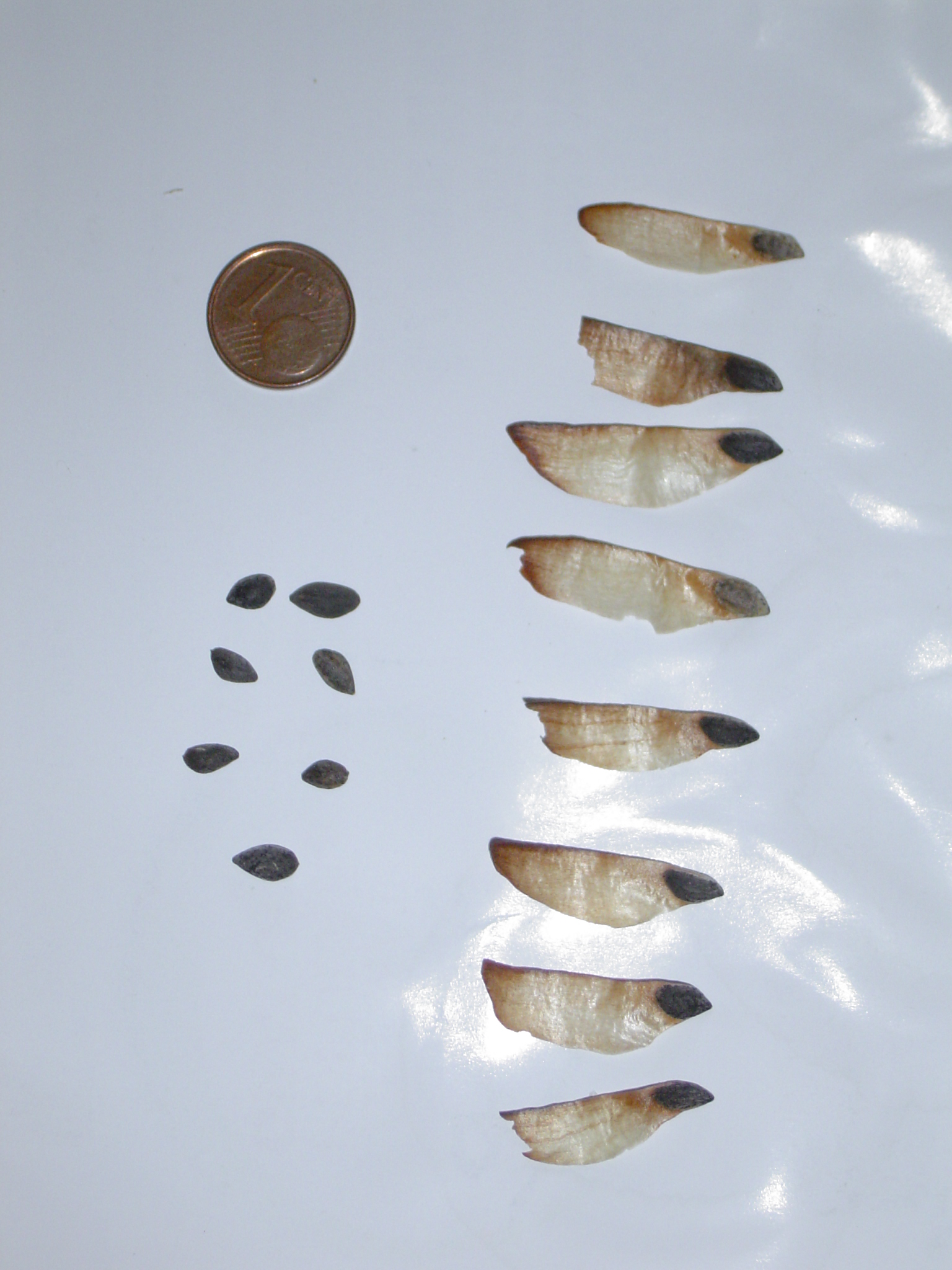 Fruits of Pinus halepensis. Collected in Torroella de Montgrí (August 2009). A coin is shown to to appreciate their relative size.